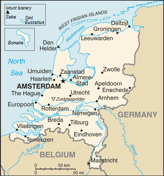 Map of the Netherlands